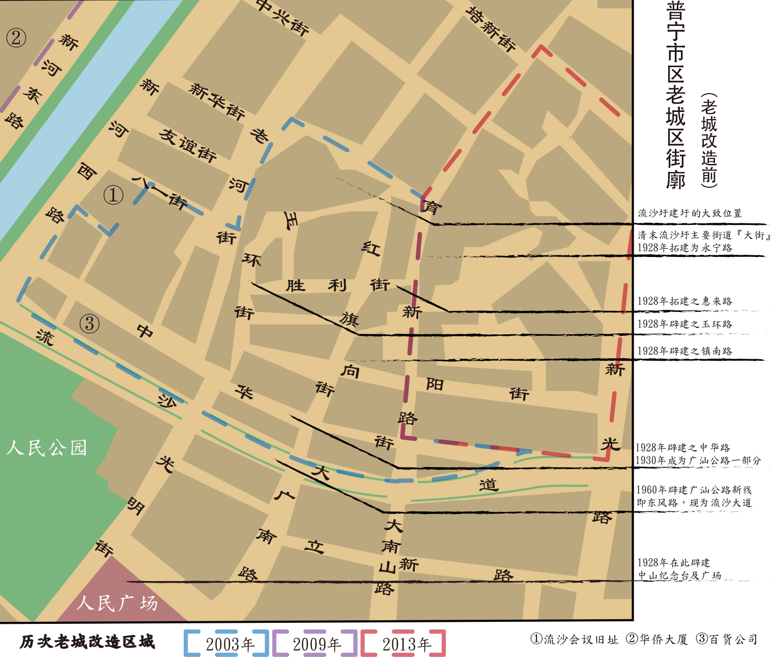 A Map to show Old Urban of Puning before Reconstruction